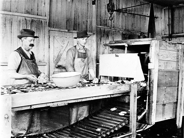 From John Cobb field notebook: Sea Beach Packing Works, Copalis, Wash. Machine opening clams. 1915 Subjects (LCTGM): Canneries--Washington (State)--Copalis; Clams--Preservation; Cannery workers--Washington (State)--Copalis Subjects (LCSH): Sea Beach Packing Works (Copalis, Wash.)